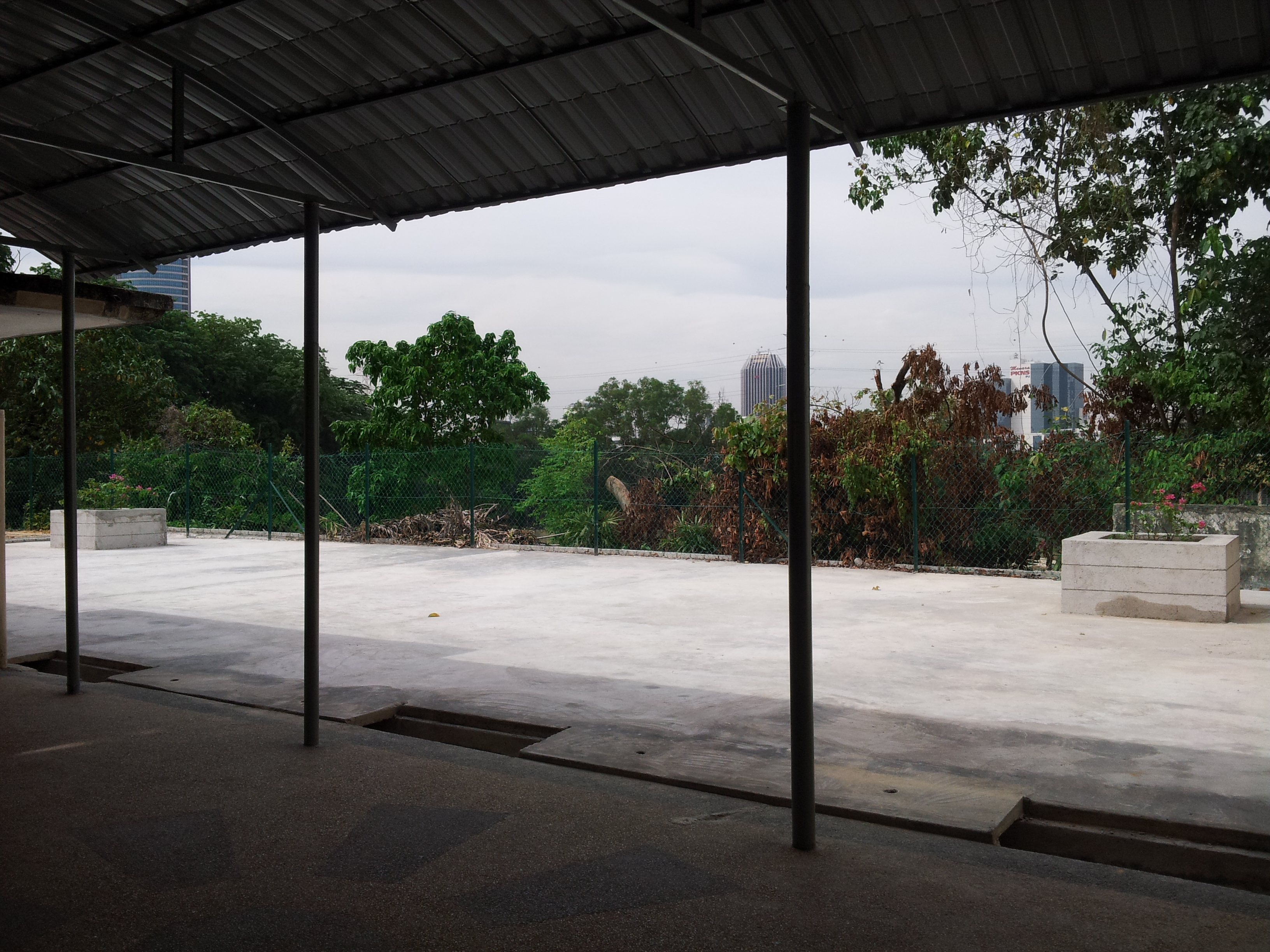 Tree Stump Area 3 - After upgrading work of pavement in 2013